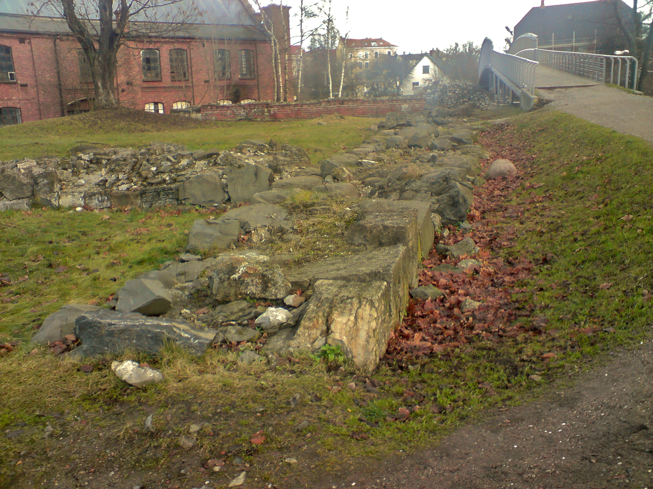 Ruins of the medevial church of Maria, detail